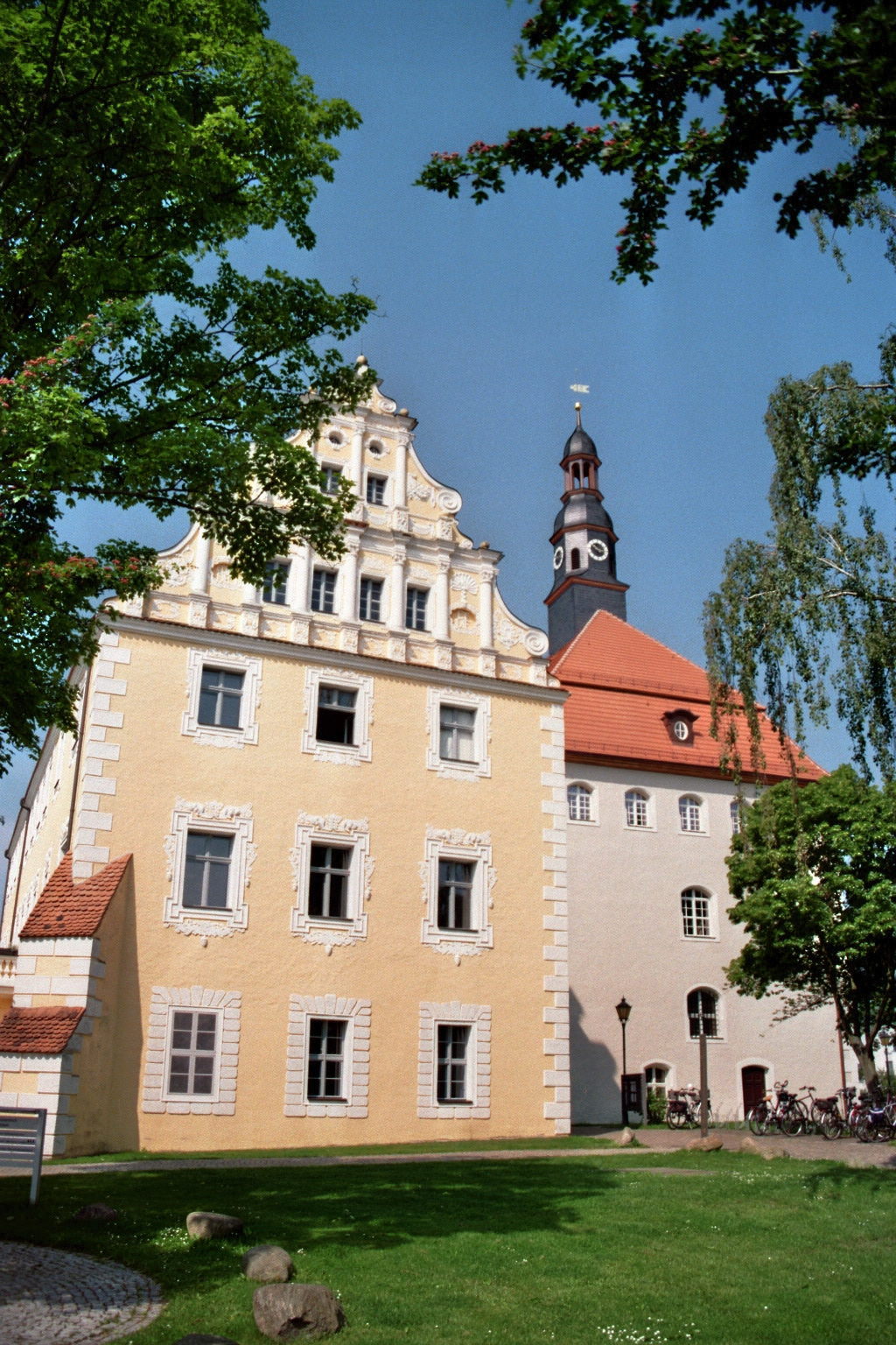 Lübben Castle in Lübben, Landkreis Dahme-Spreewald, Brandenburg, Germany.